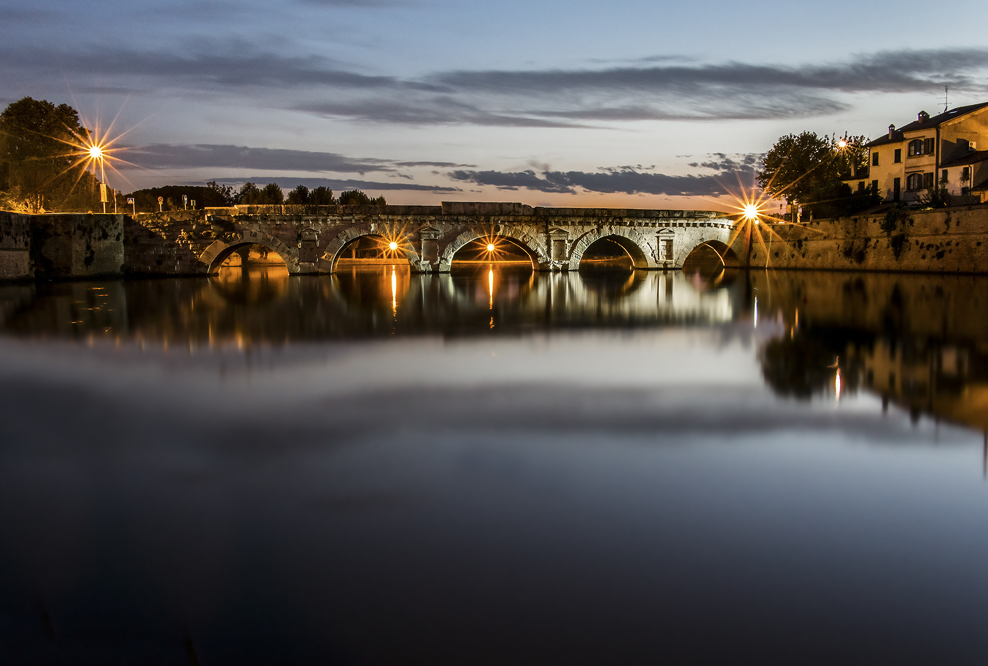 This is a photo of a monument which is part of cultural heritage of Italy.